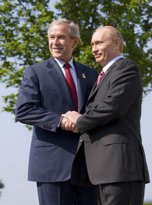 President George W. Bush of the United States and President Vladimir Putin of Russia, exchange handshakes Thursday, June 7, 2007, after their meeting at the G8 Summit in Heiligendamm, Germany.